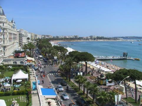 Cannes Filmfestival in 2001. My own picture. Created by Rita Molnár 2001.